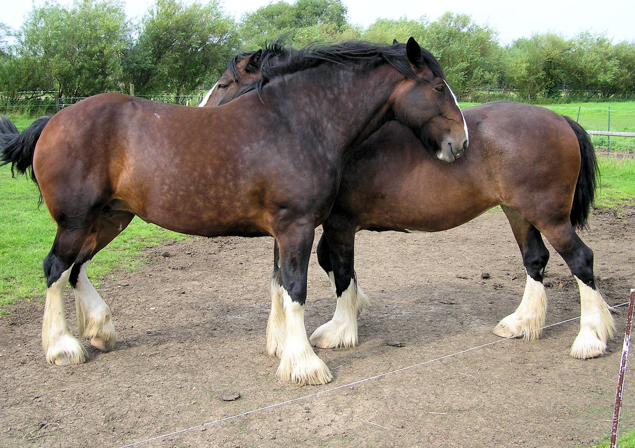 Shire horses at Avon Valley Country Park, Bristol, England. Named “Misty” and “Molly”, they are six years old.